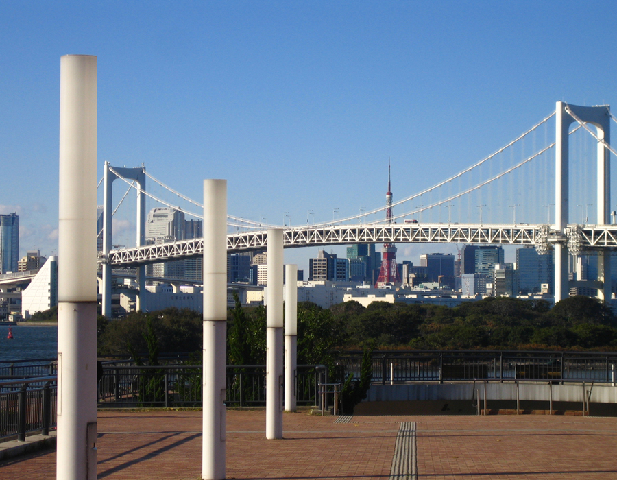 View from Odaiba on Tokyo,Japan (Personal picture taken on November 12, 2006)